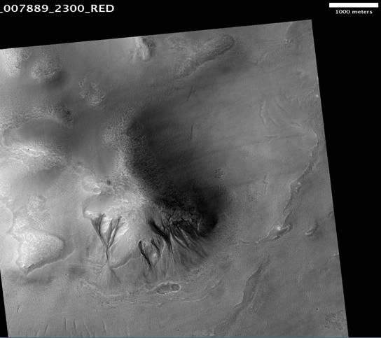 Acidalia Colles Gullies, as seen by hirise. Location is 49.7 degrees north latitude and 336.5 degrees east longitude. Image was taken by the Mars Reconnaissance Orbiter's HiRISE. The HiRISE camera was built by Ball Aerospace and Technology Corporation and is operated by the University of Arizona. Image courtesy NASA/JPL/University of Arizona.